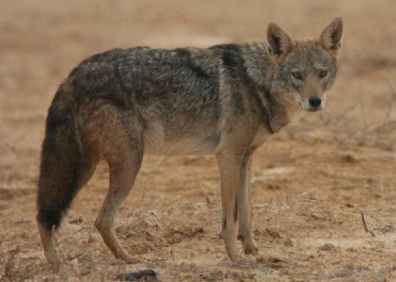 An African golden wolf in Senegal. (photograph: C. Bloch).